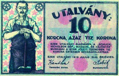 Voucher for the workers of the Hungarian Schlick-Nicholson Works, worth 10 krones, valid in the "welfare shops" of the company. Date of print unknown, valid until 31st July 1919.